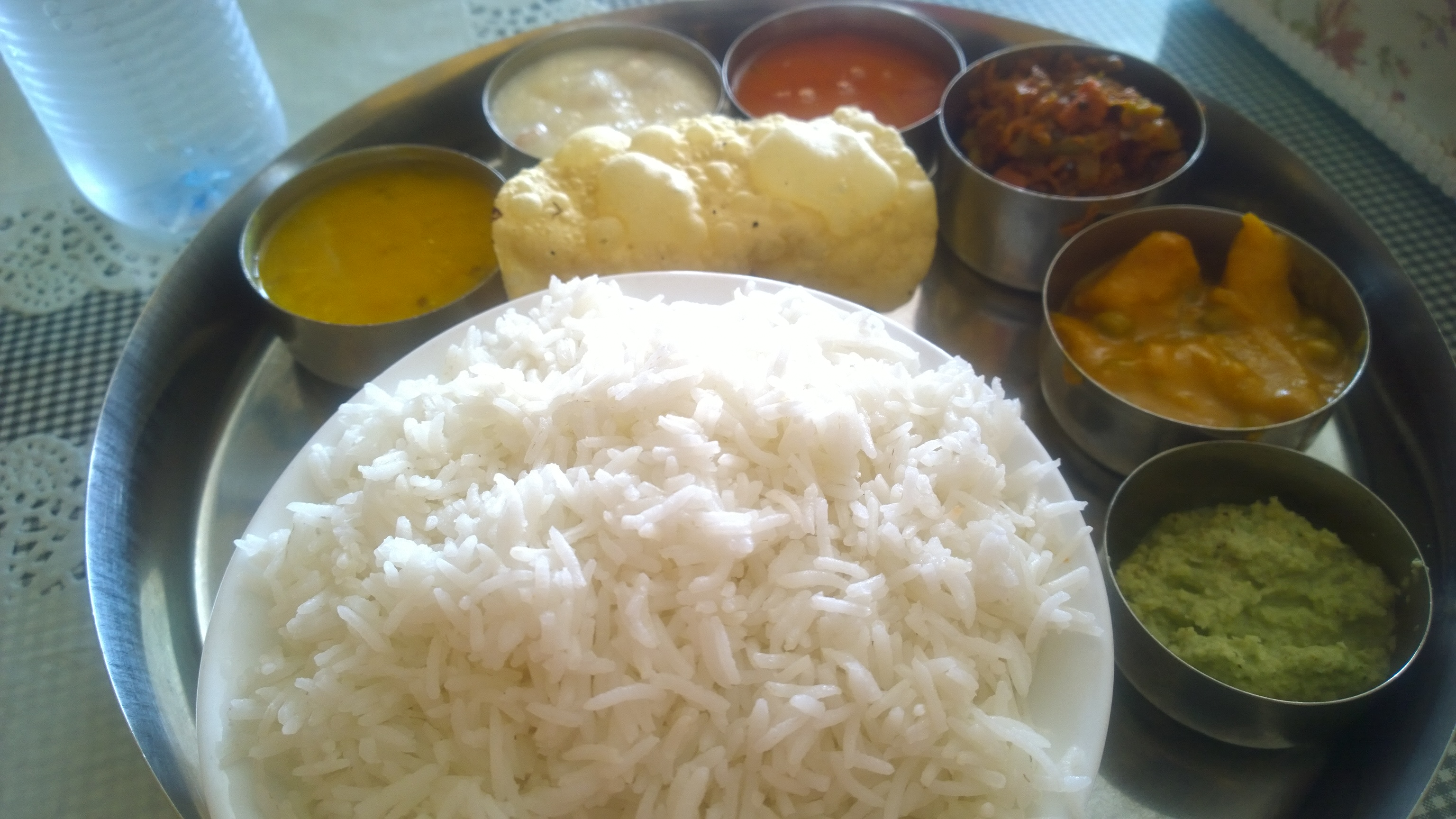 Vegetarian thali at an Indian restaurant in Dubai